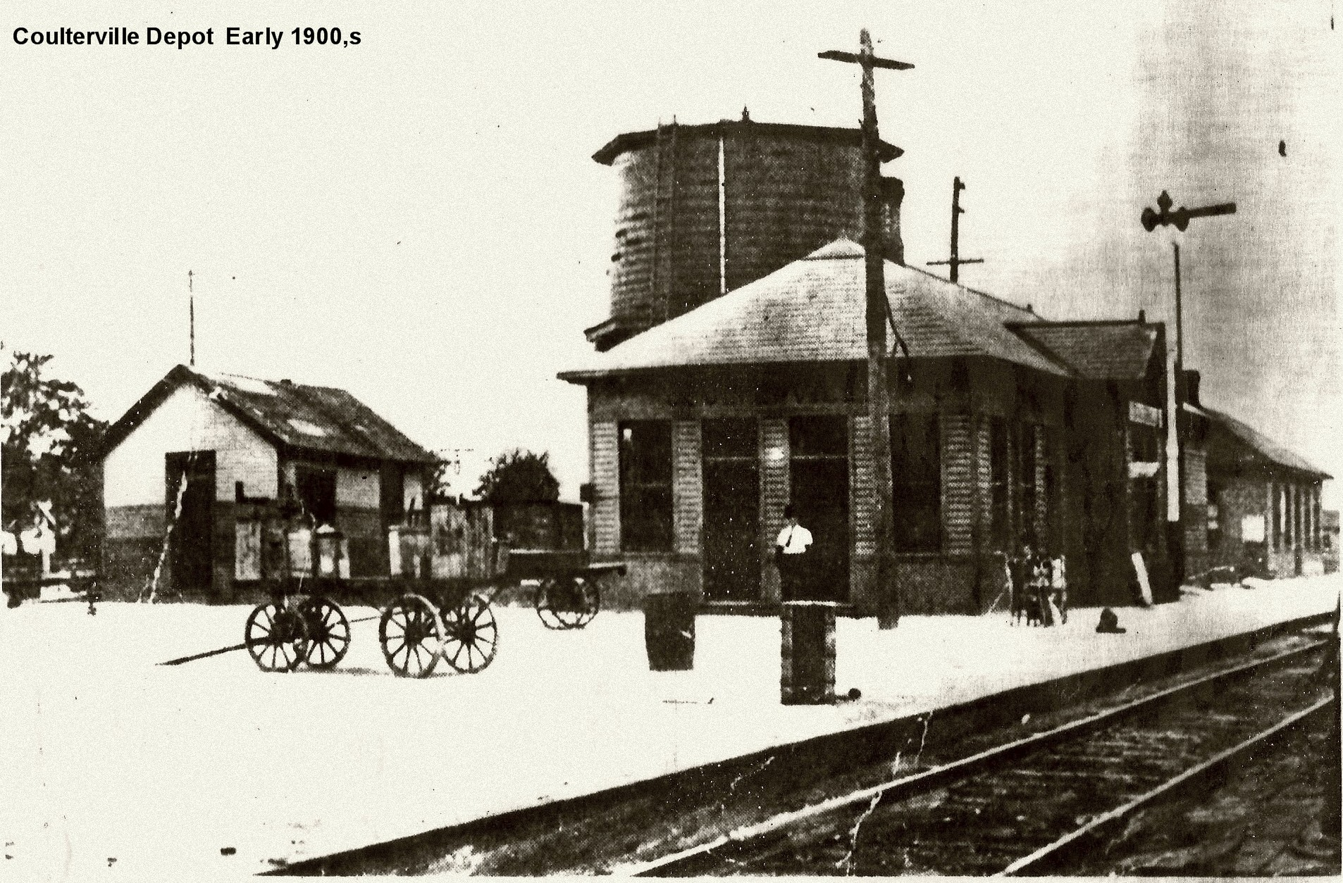 One of Coulterville's earliest train depots